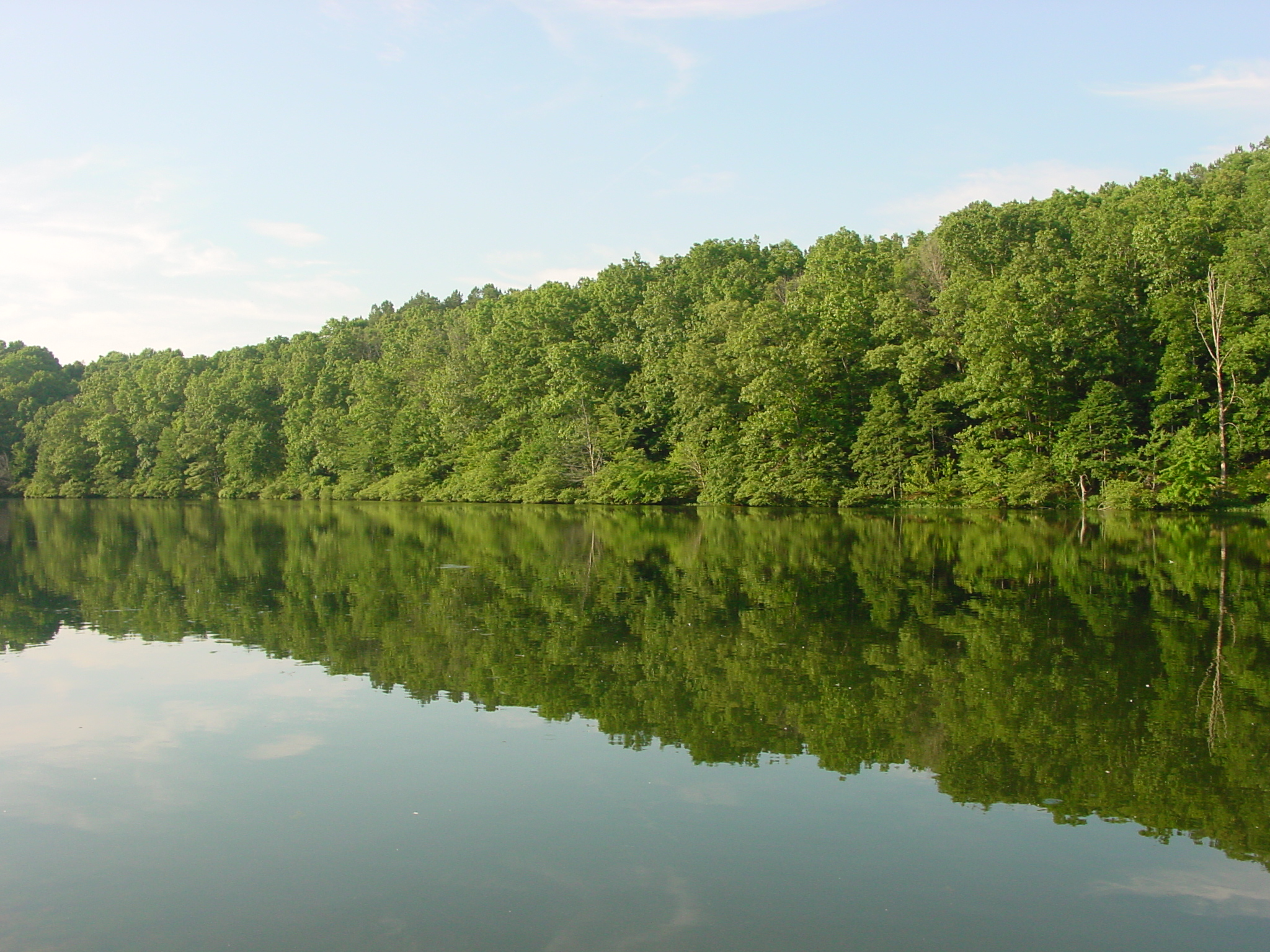 Group of deer in David Crockett State Park, located a half mile west of Lawrenceburg, Tennessee.